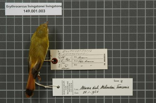 Erythrocercus livingstonei livingstonei Gray, 1870